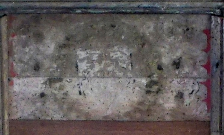 The arms of Flixton Priory, Suffolk (a St Catherine's wheel with a cross in chief), depicted within a cabled wreath on the Medieval rood loft in the parish church of St Nicholas, Fundenhall, Norfolk